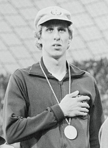 1972 Press Photo David Wottle American National Anthem